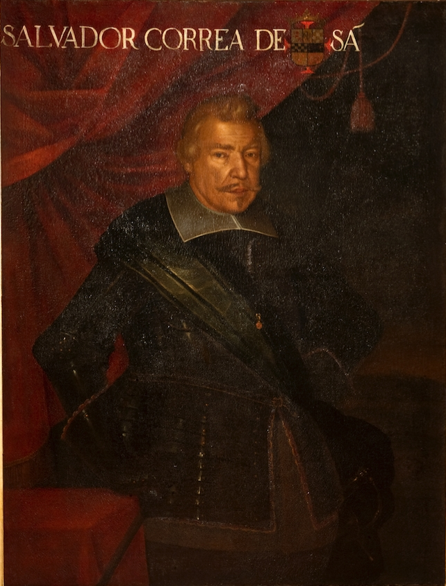 Portrait painting of Salvador Correia de Sá e Benevides (1602-1688), painted 1673-1675 by Feliciano de Almeida. Currently at Galleria degli Uffizi, Florence, Italy.